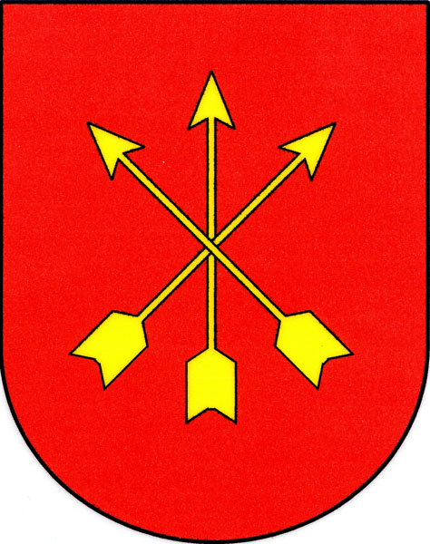 Coat of amrs of Šípy , District Rakovník, Czech Republic